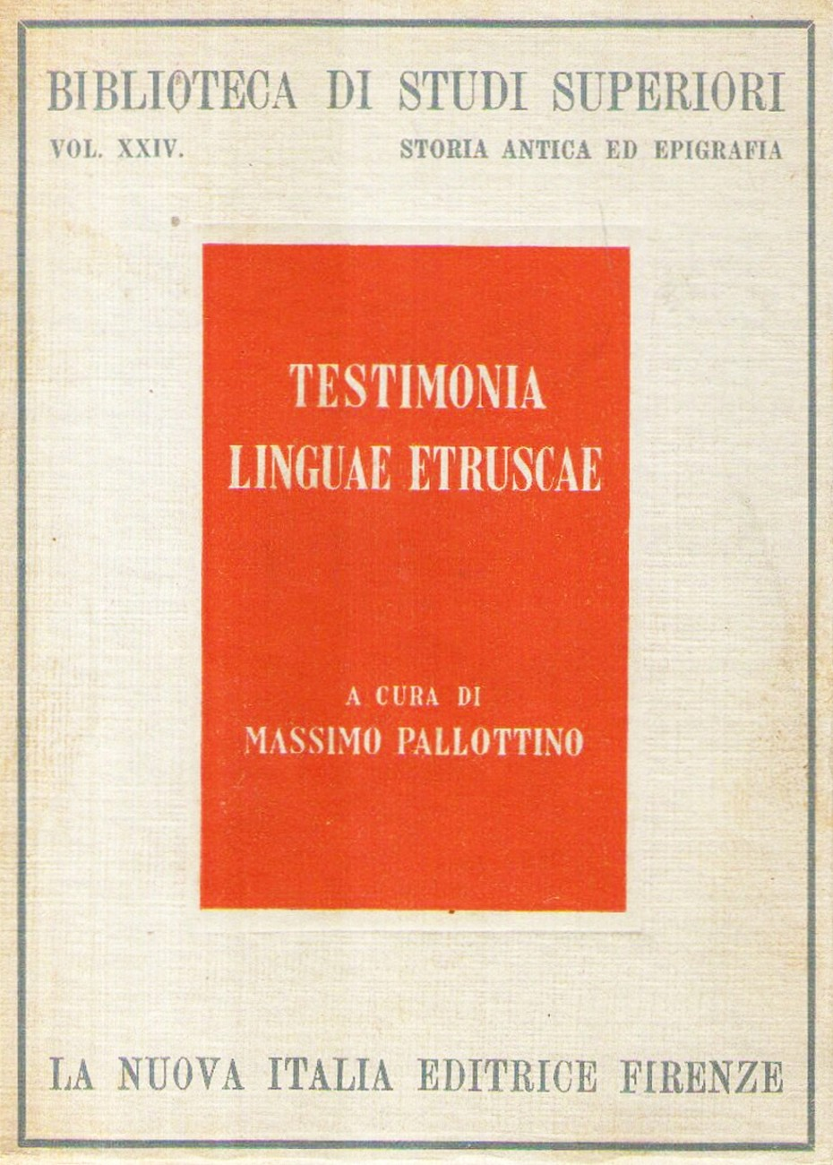 Massimo Pallottino, Testimonia Linguae Etruscae, La Nuova Italia, Firenze 1958.